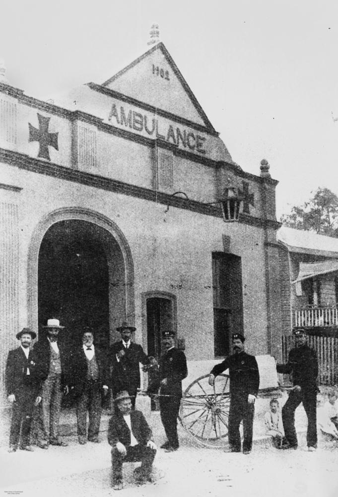 Ambulance building at Ravenswood, Queensland, 1906. Group of ambulance committee members and bearers in front of the Ravenswood ambulance building.